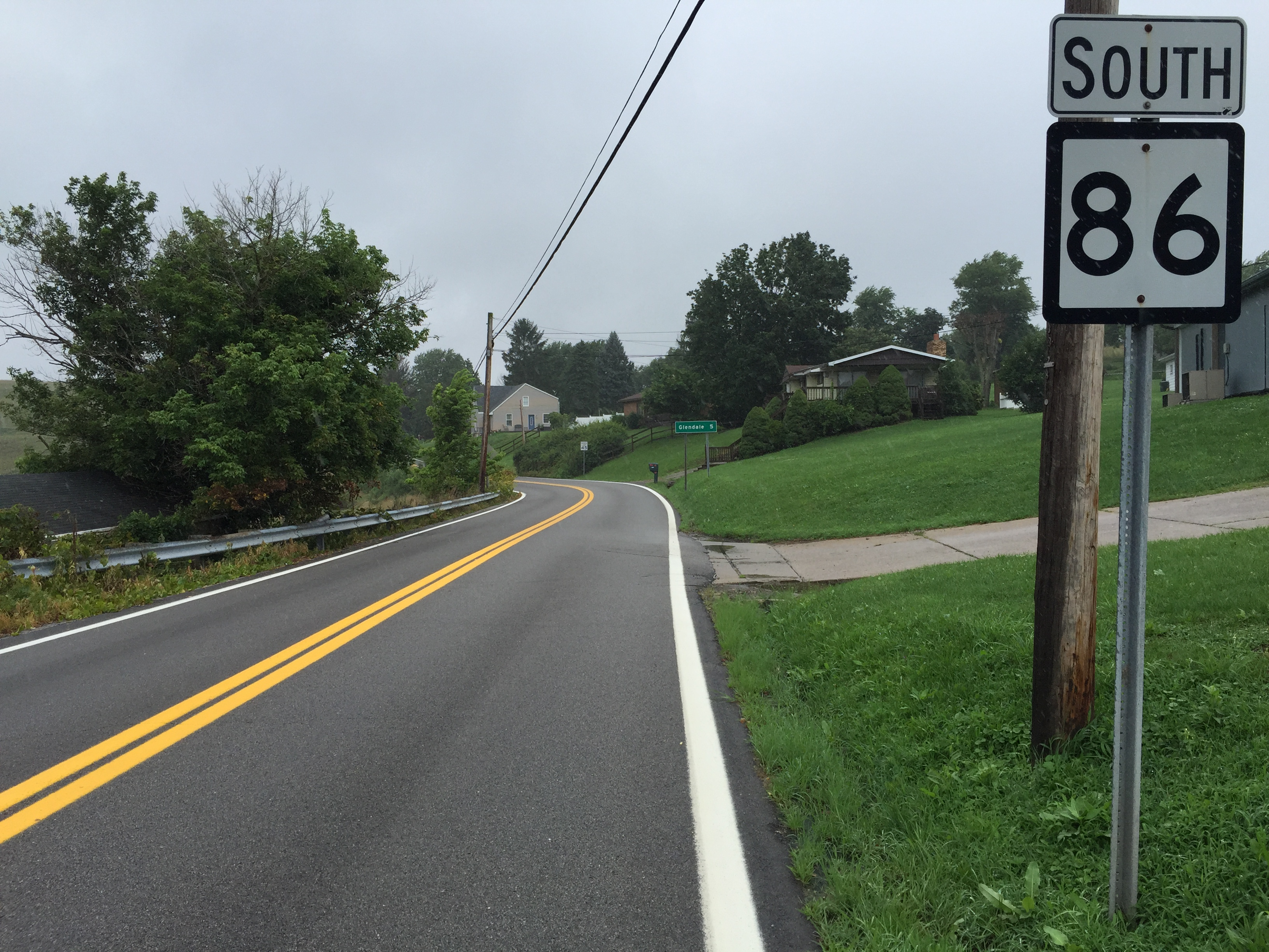 View south along West Virginia State Route 86 (Grand View Road) at West Virginia State Route 88 (Fairmont Pike) in Sherrard, Marshall County, West Virginia